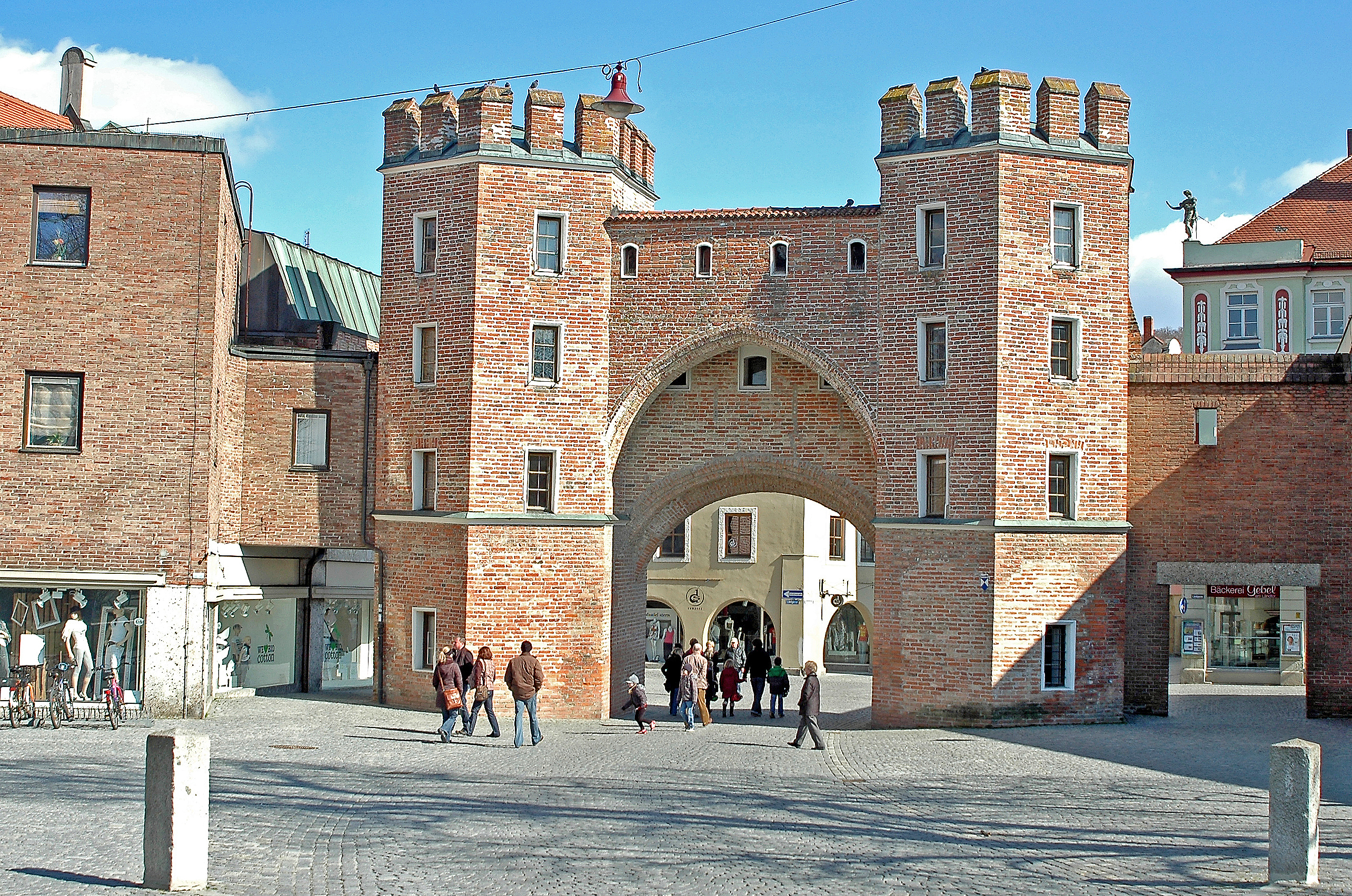 Medieval city gate (Ländtor) in Landshut